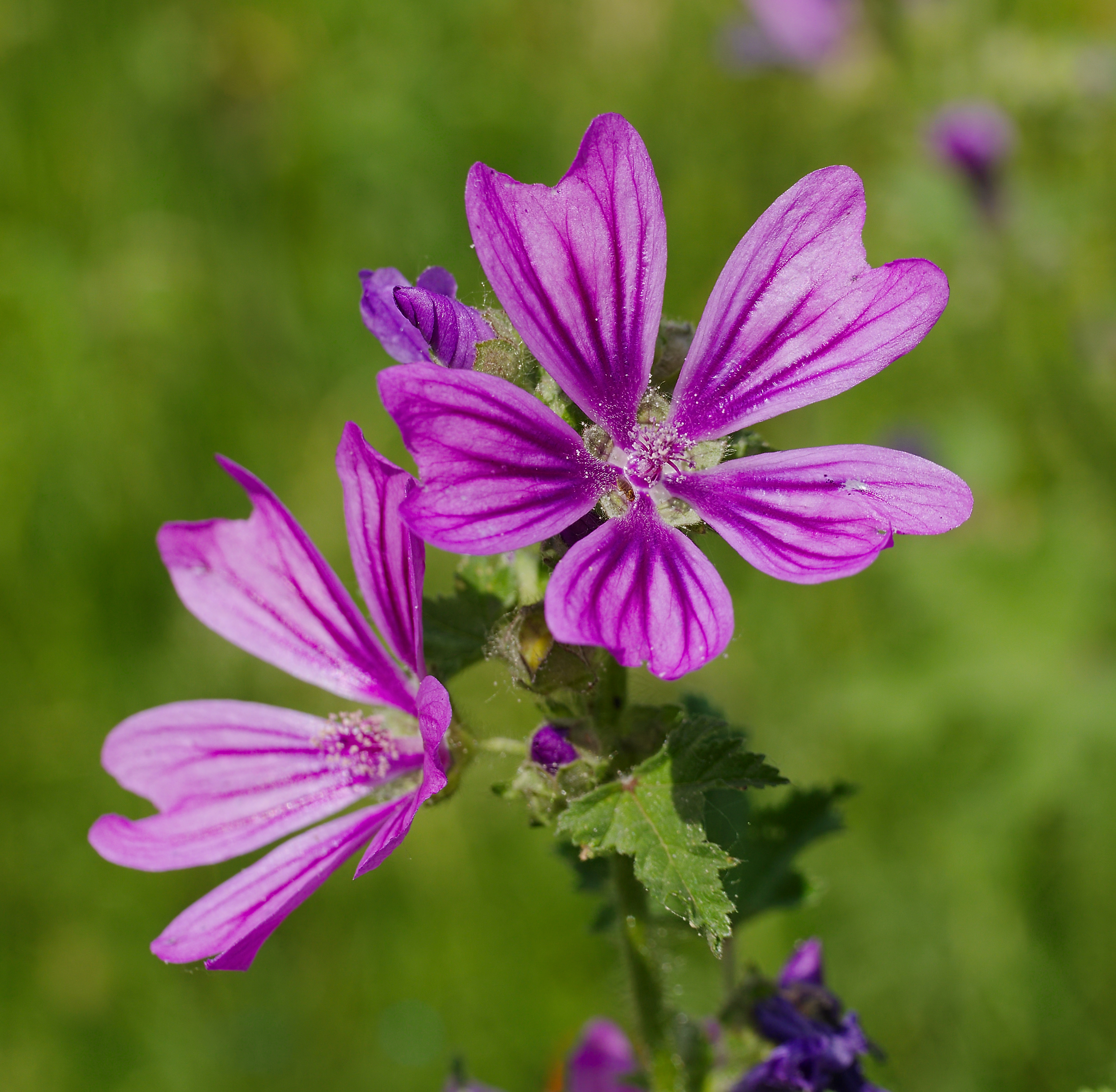 Malva sylvestris. Taken by an lake in Pfingstberg, Mannheim-Rheinau, Baden-Württemberg, Germany.